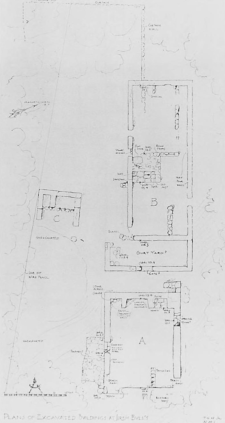 Architectural drawing of the Jireh Bull Blockhouse archaeological site, South Kingstown, Rhode Island.